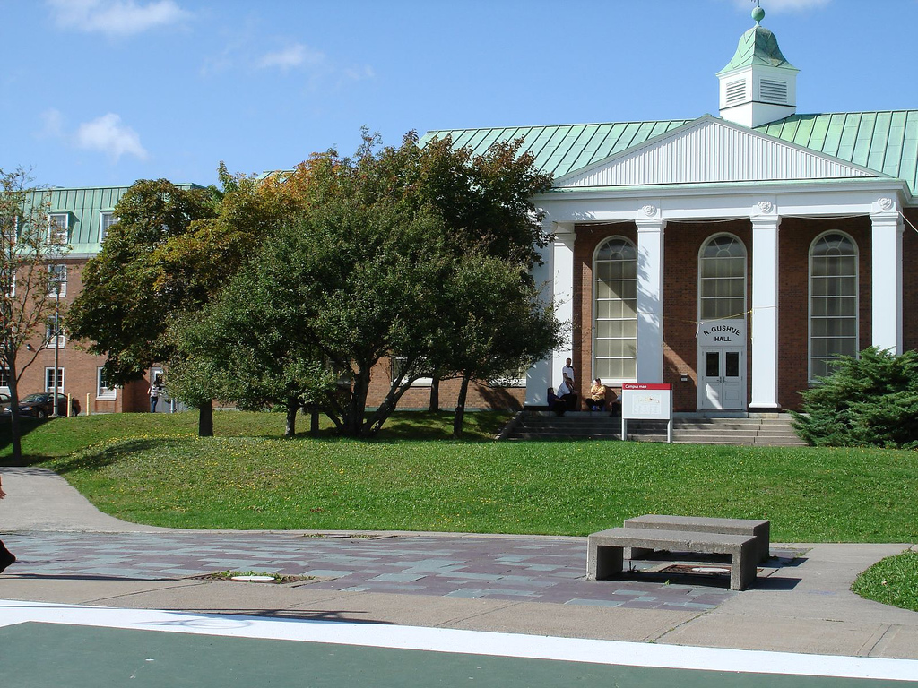 R. Gushue Hall, Memorial University of Newfoundland